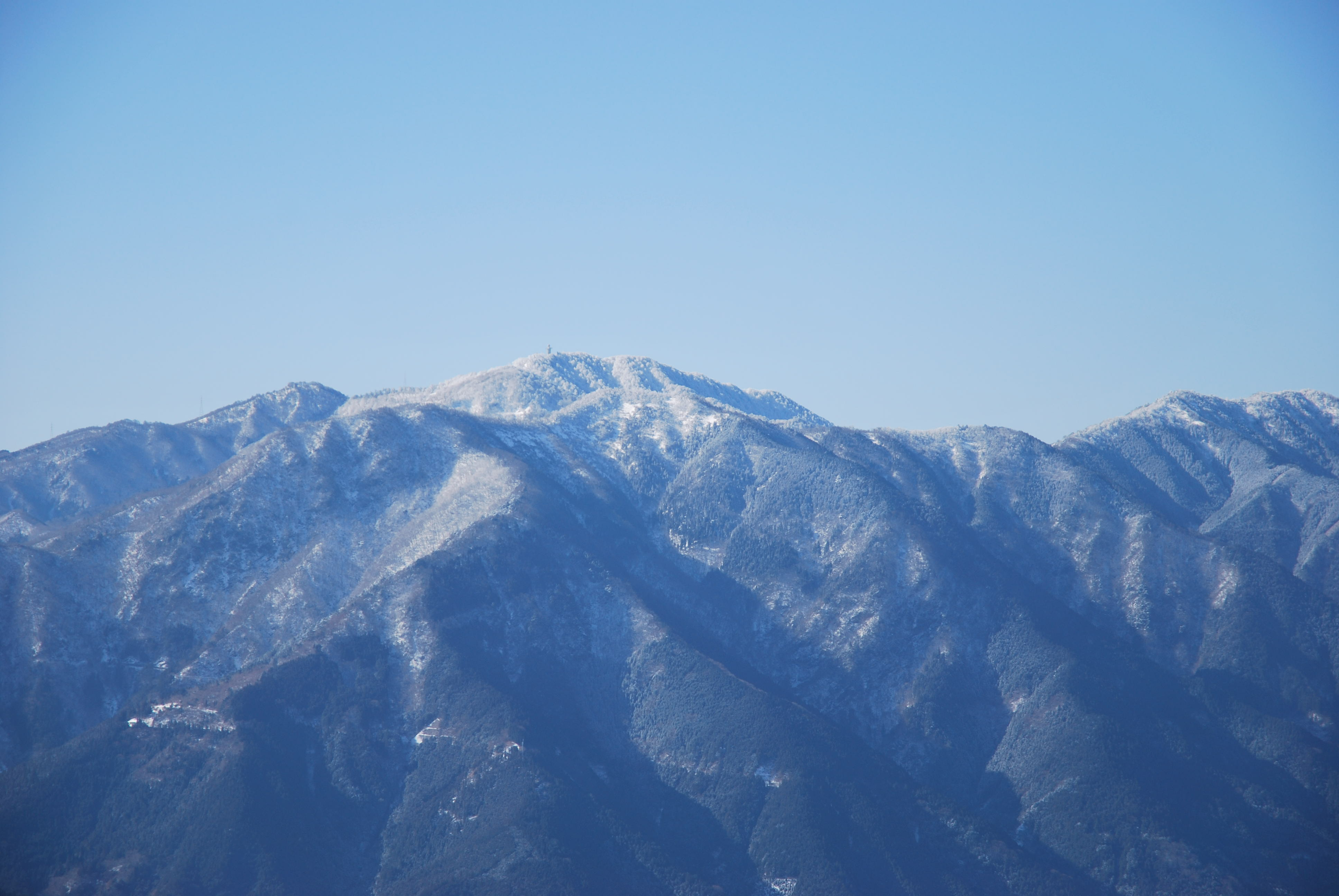 Mount Takashiro (Takashiro-yama) seen from the NNE. Taken from Mount Shozanji